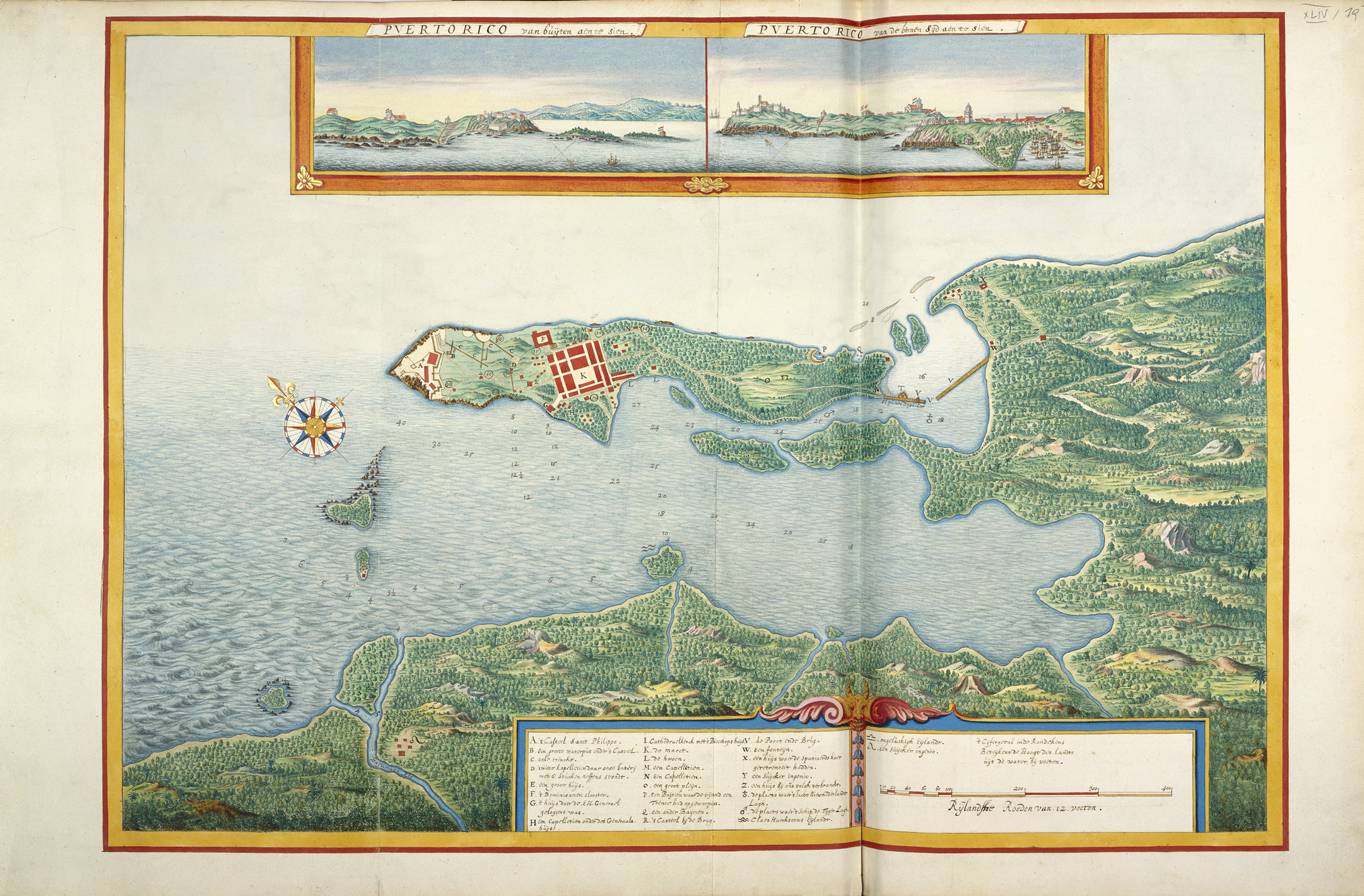 Map of Puerto Rico, 17th century